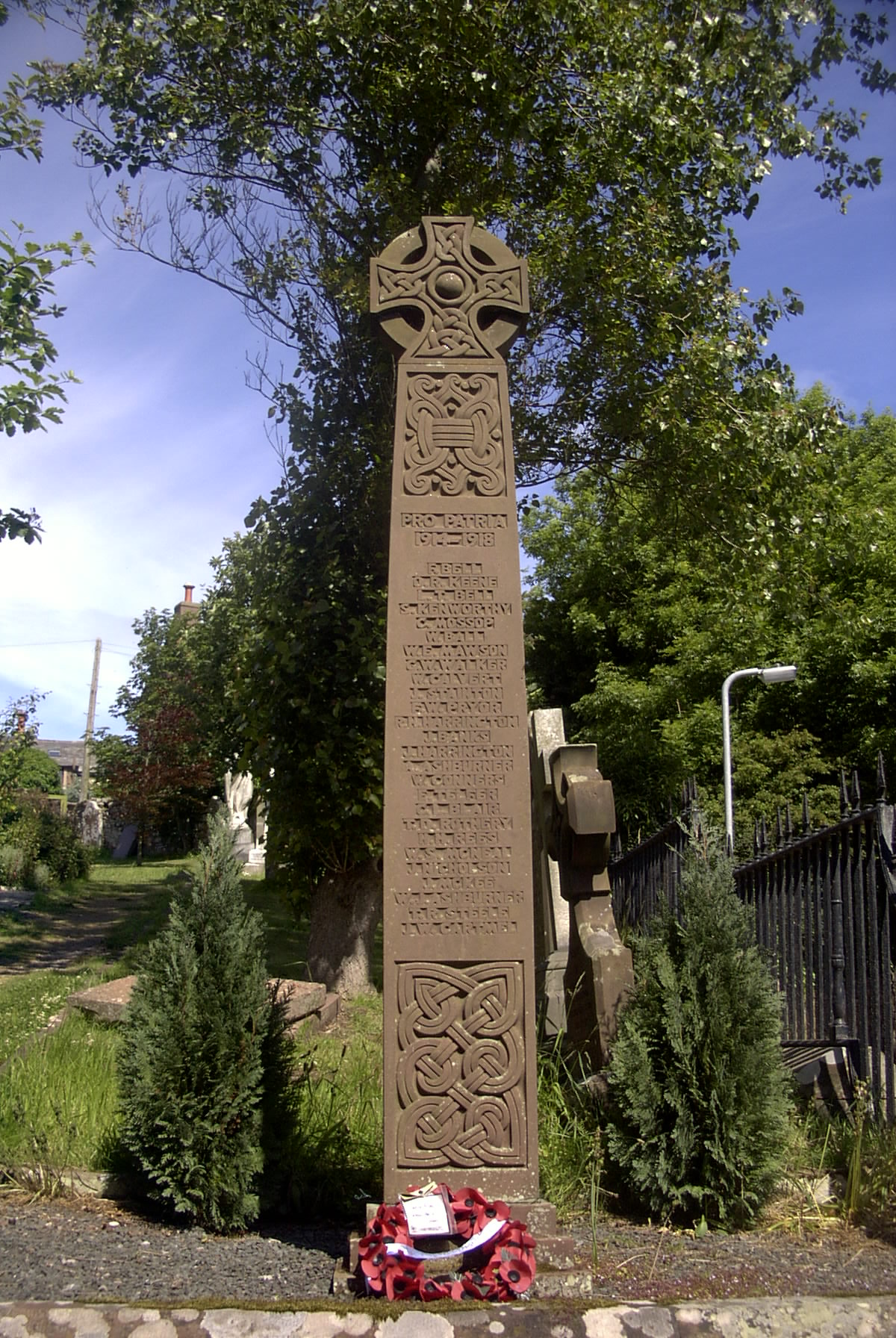 The graveyard war memorial, St Bees priory, Cumbria. It was designed by the famous scholar of Northumbrian art W G Collingwood, who was John Ruskin's secretary, at the request of Lt-Col George Dixon. The other war memorial, "St George and the Dragon", designed by local artist J D Kenworthy, is at the railway station.